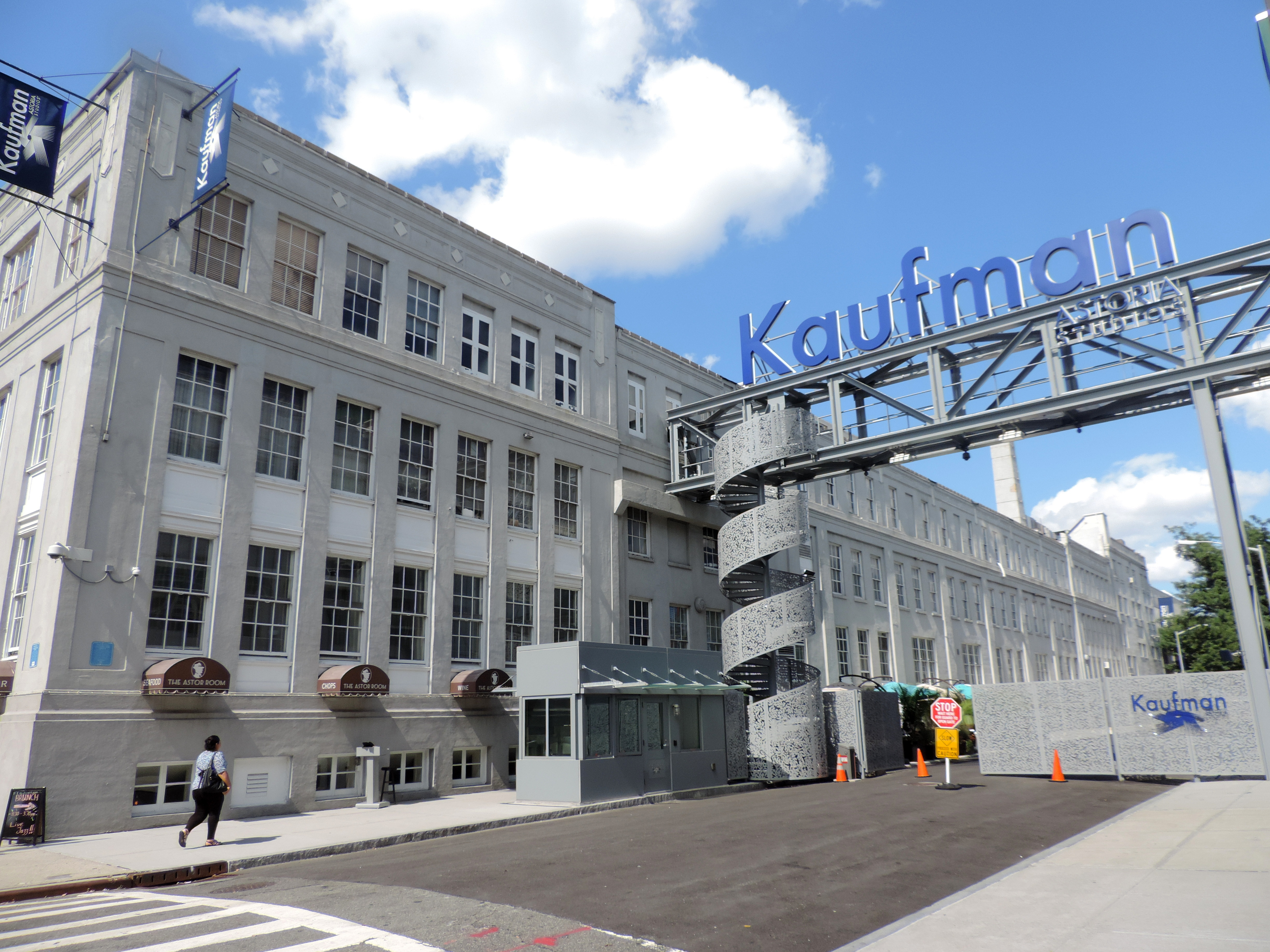 Looking north at the former 36th Street, recently gated.